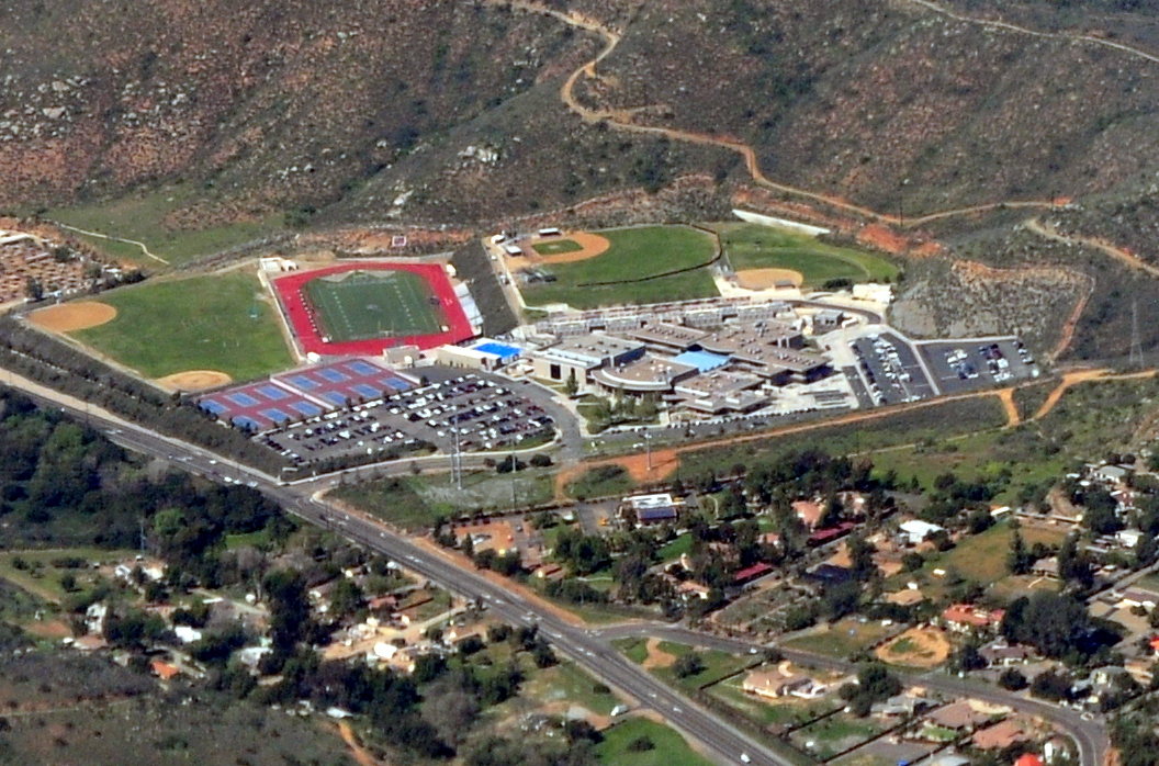 Aerial view of Steele Canyon High School, Spring Valley, San Diego County, California, looking roughly northwest.